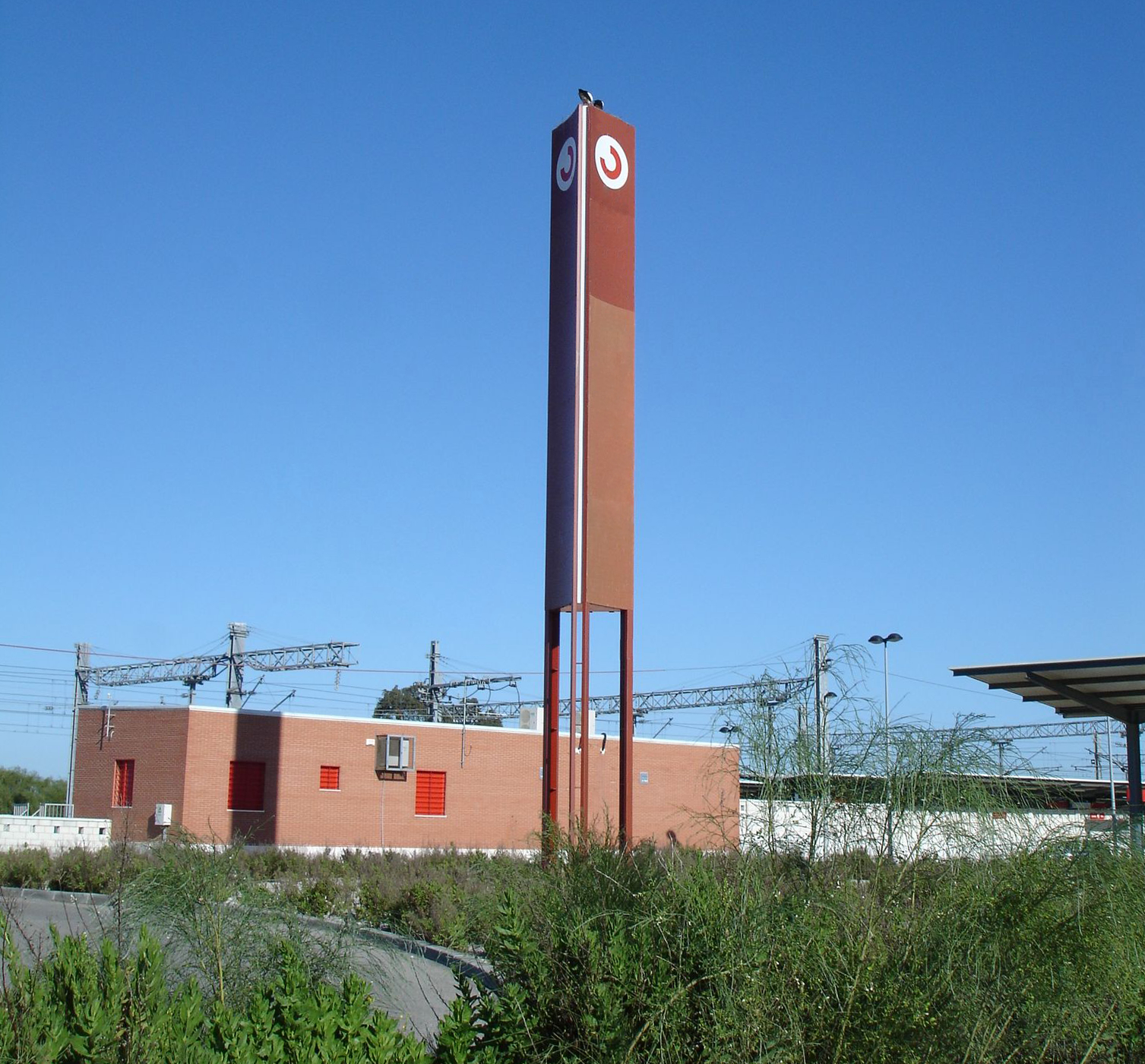 Las Aletas train station. Puerto Real (Andalusia, Spain)